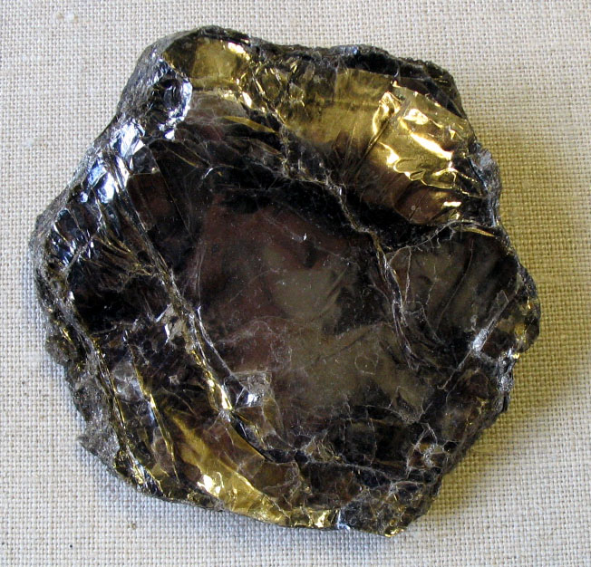 A phlogopite crumbled cleavage plate from Templeton, Quebec. Photo taken at the Natural History Museum, London.